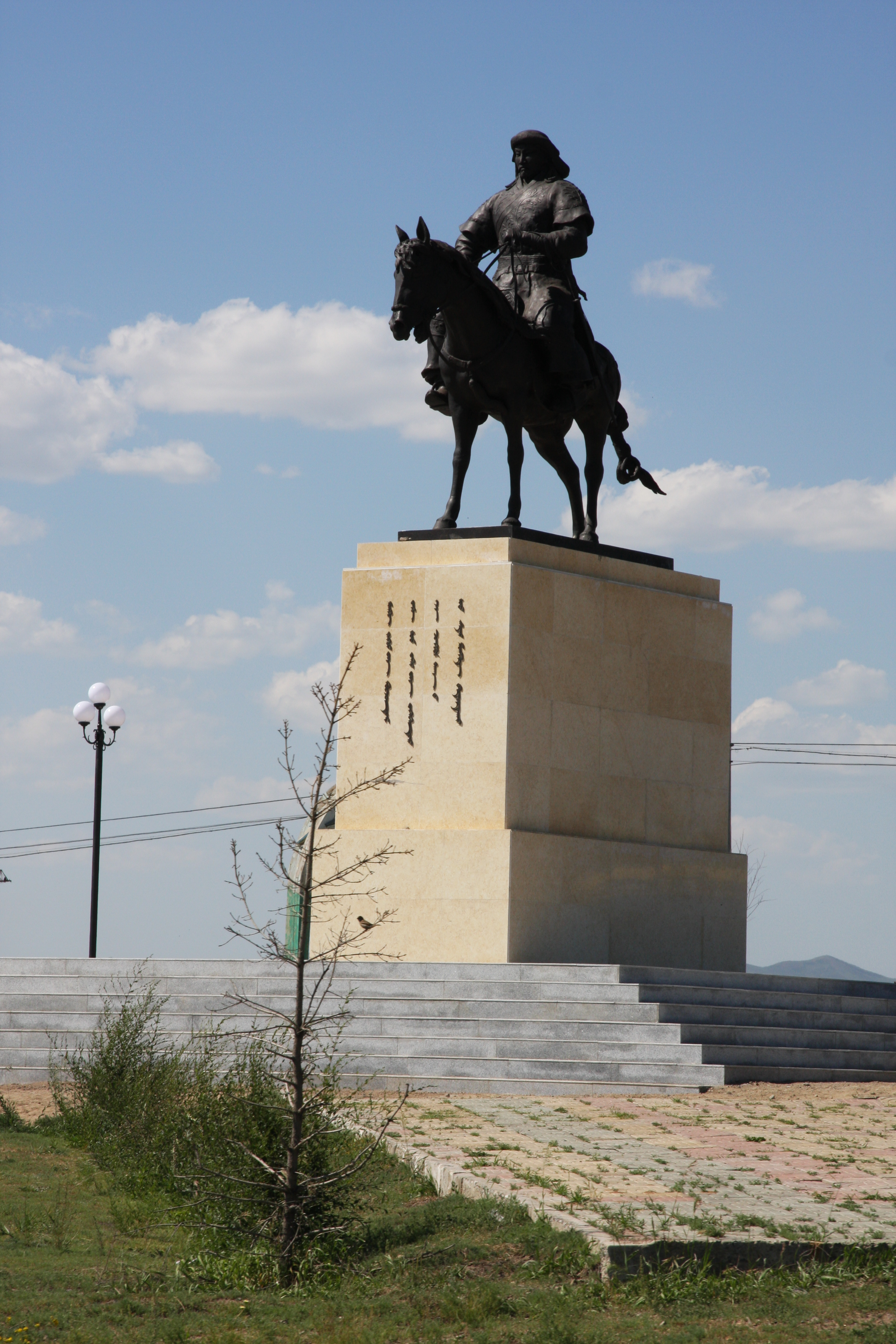 Genghis Khan statue at Chinggis Khaan International Airport Монгол: Чингис хаан олон улсын нисэх онгоцны буудал дахь Чингис хааны хөшөө